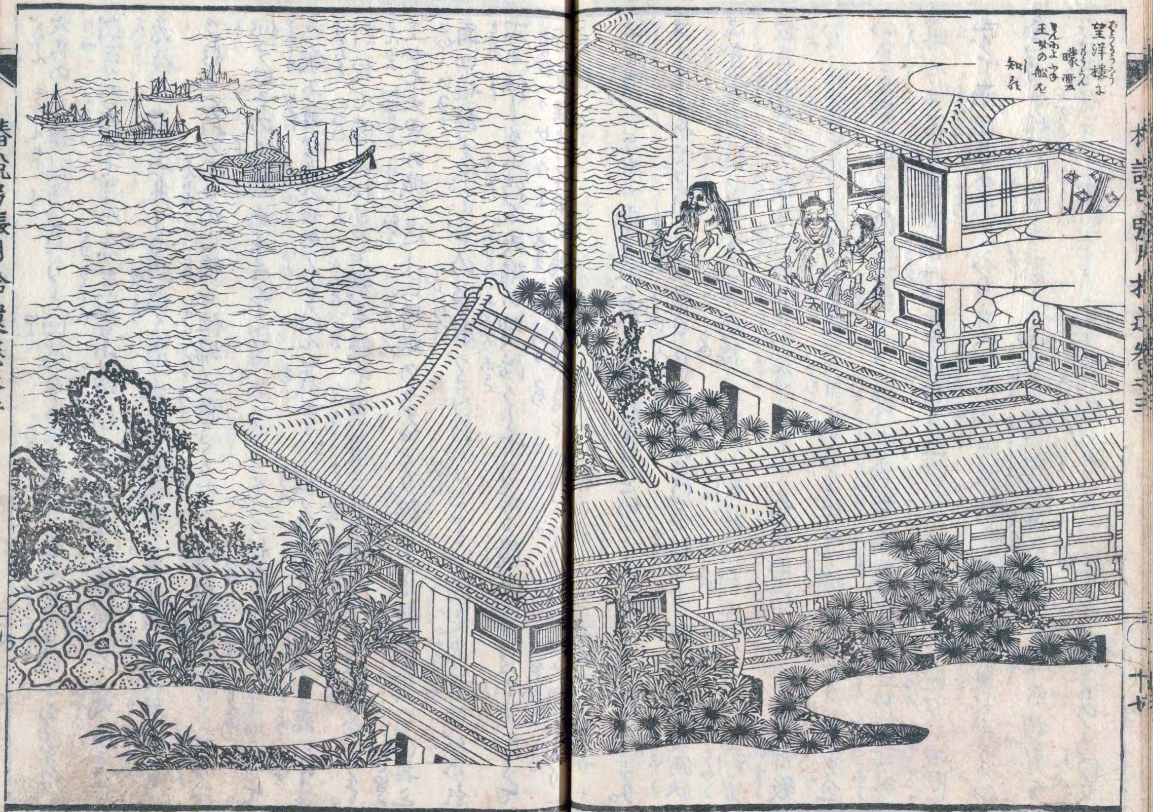 MINAMOTONO-Tametomo's ships missed his enemy at his house across the sea.